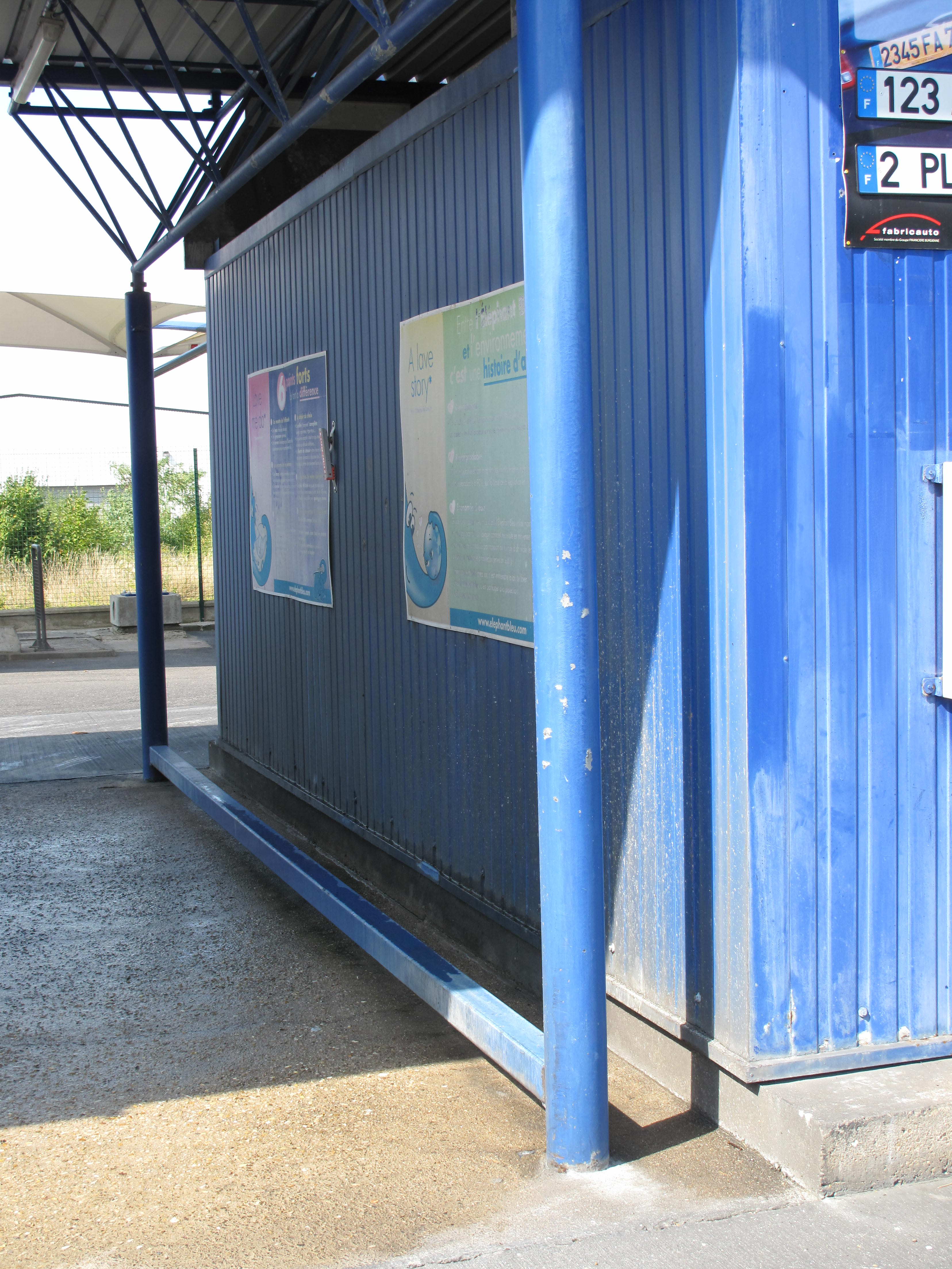 Modern guard stone in a car wash station